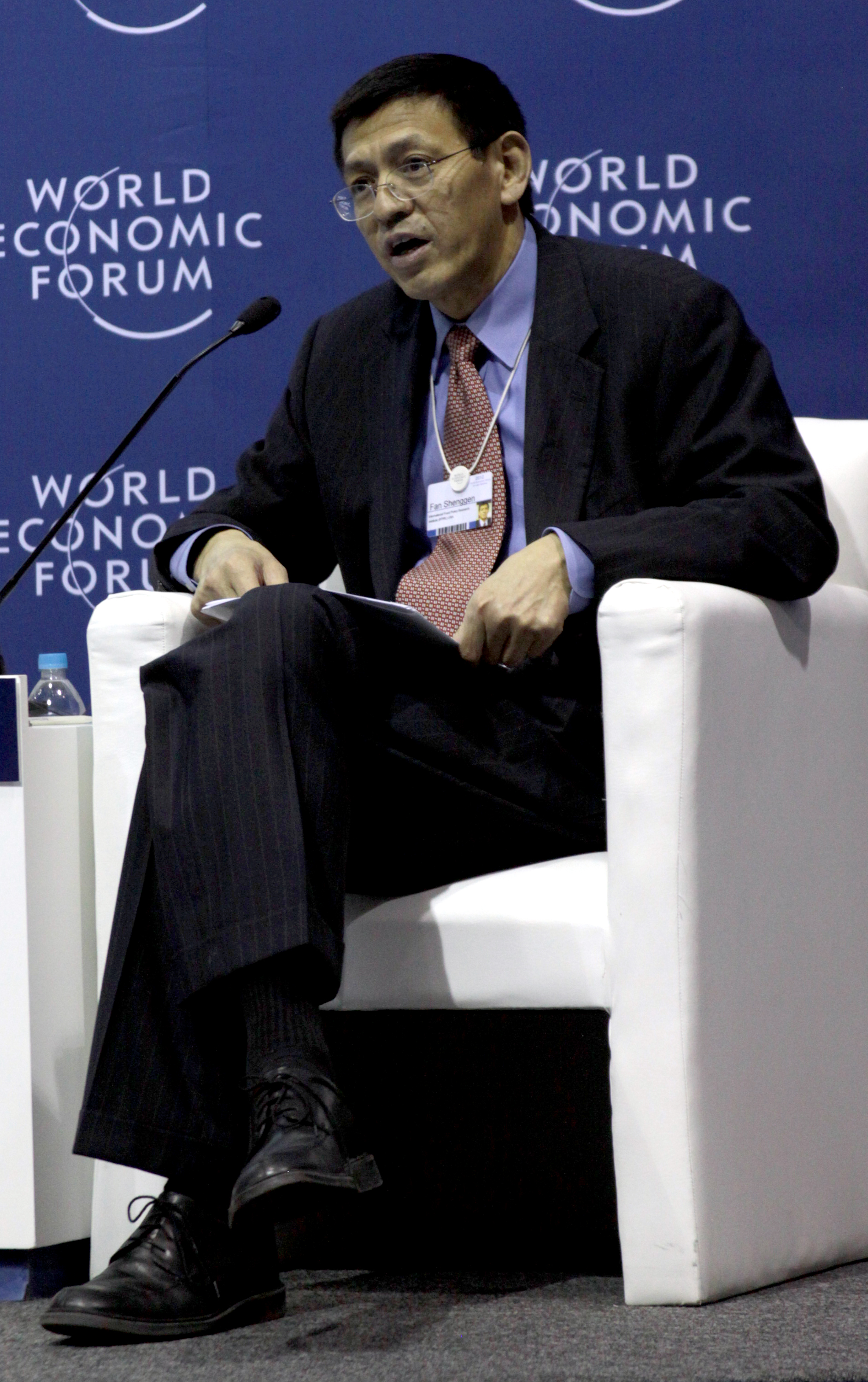 PUERTO VALLARTA/MEXICO, 17APR12 - Fan Shenggen, Director-General, International Food Policy Research Institute (IFPRI), USA; Global Agenda Council on Food Securitycaptured during the Interactiver Session at the World Economic Forum on Latin America 2012 in Puerto Vallarta, Copyright World Economic Forum ( by Josef Kandoll Wepplo